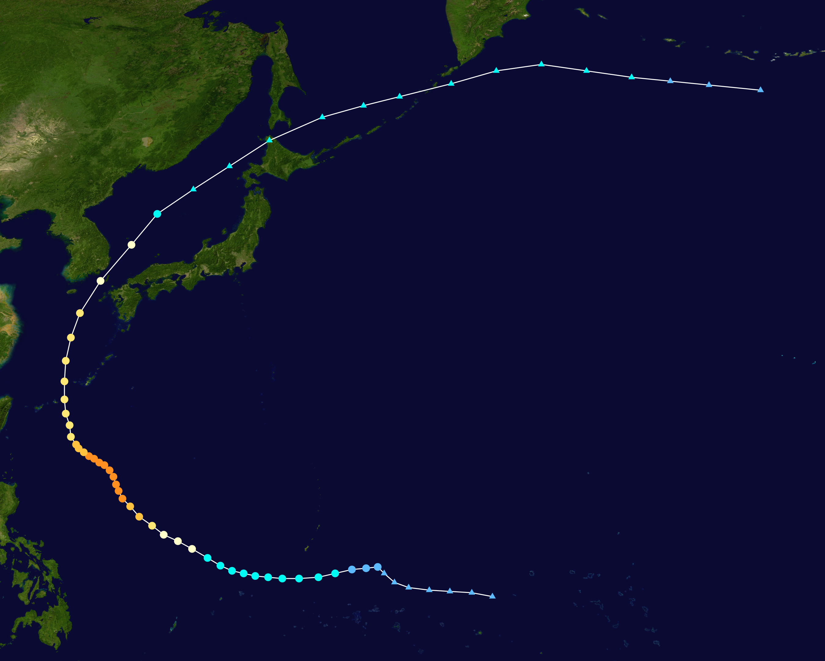 Typhoon Dinah 1987 track. Uses the color scheme from the Saffir-Simpson Hurricane Scale.